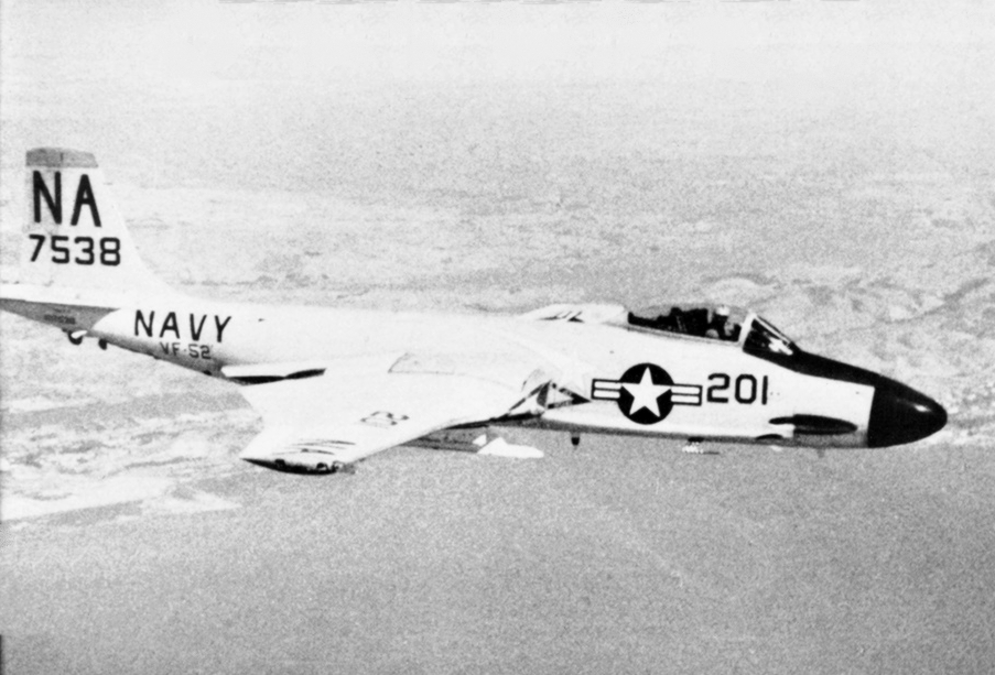 A U.S. Navy McDonnell F2H-3 Banshee (BuNo 127538) from Fighter Squadron VF-52 Knightriders in flight. VF-52 was assigned to Air Task Group 1 (ATG-1) aboard the aircraft carrier USS Ticonderoga (CVA-14) for a deployment to the Western Pacific from 4 October 1958 to 16 February 1959.